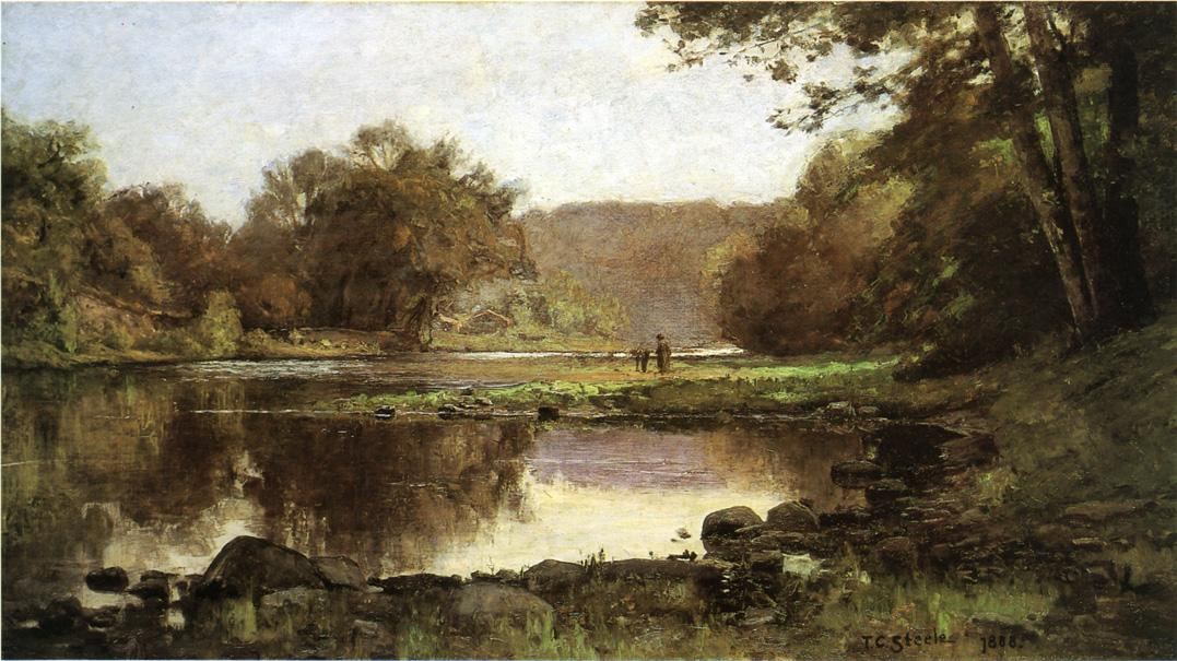 The Creek